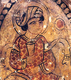 Al-Hakim bi-Amr Allah (996-1021), sixth Fatimid caliph and 16th Ismaili imam.